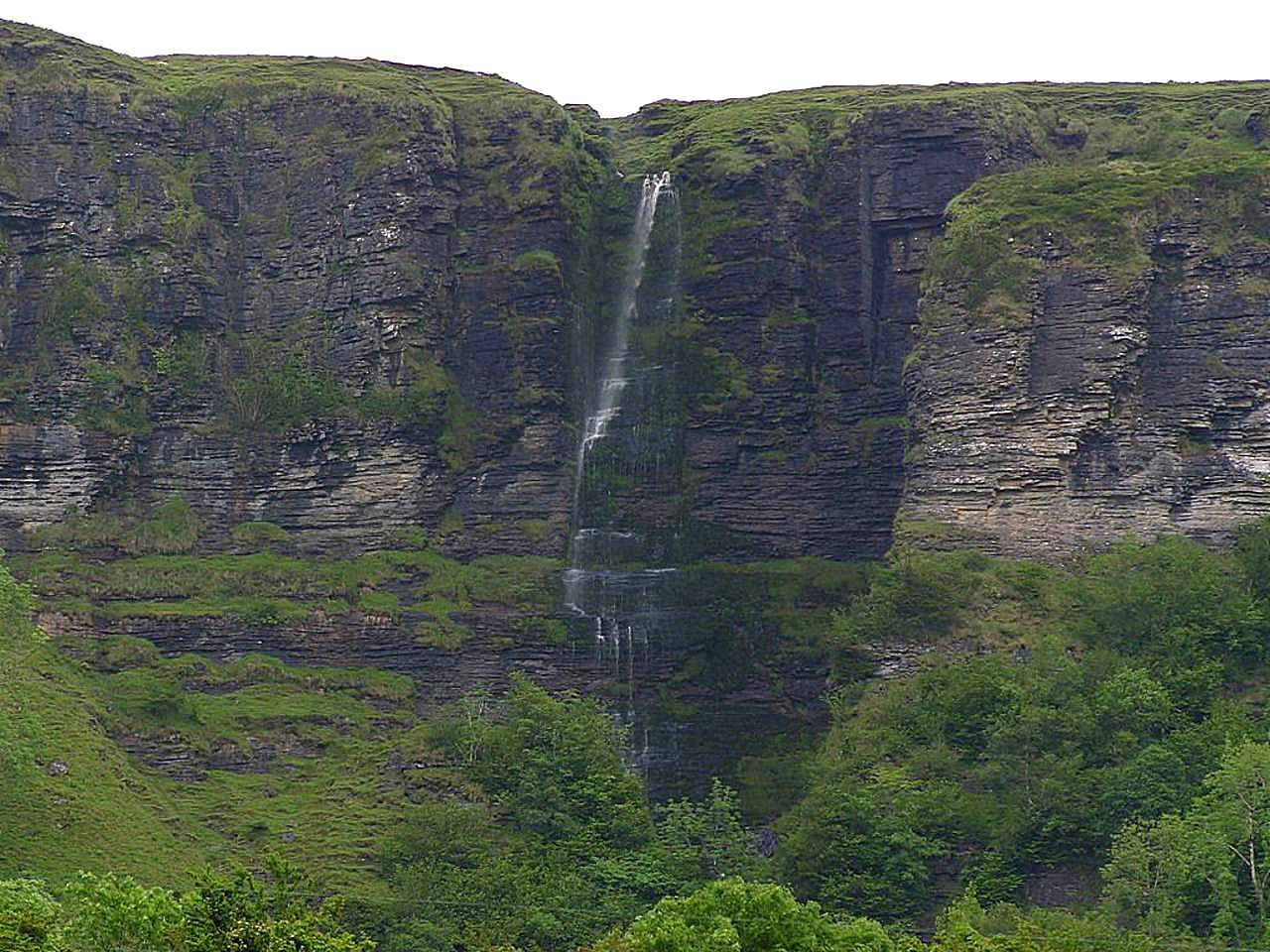 Image title: Waterfalls at glecar lough Image from Public domain images website, Locally known as the Devil's Chimney